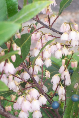 Elaeocarpus reticulatus flowers & fruit, Park Avenue, Chatswood